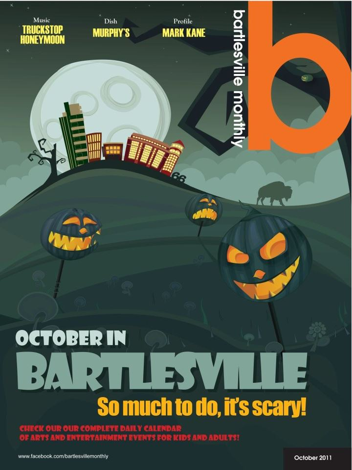 Bartlesville Monthly Magazine's second issue.